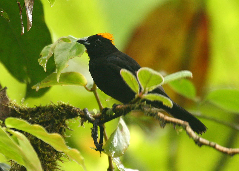 Tawny-crested Tanager (Tachyphonus delatrii). A Male at Quebrada Gonzalez Station, Parque Nacional Brauilio Carillo, Costa Rica on 9 July 2008.